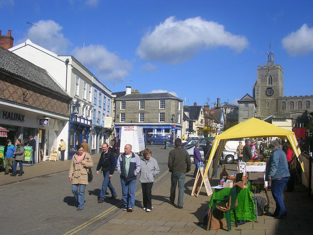 Diss Marketplace